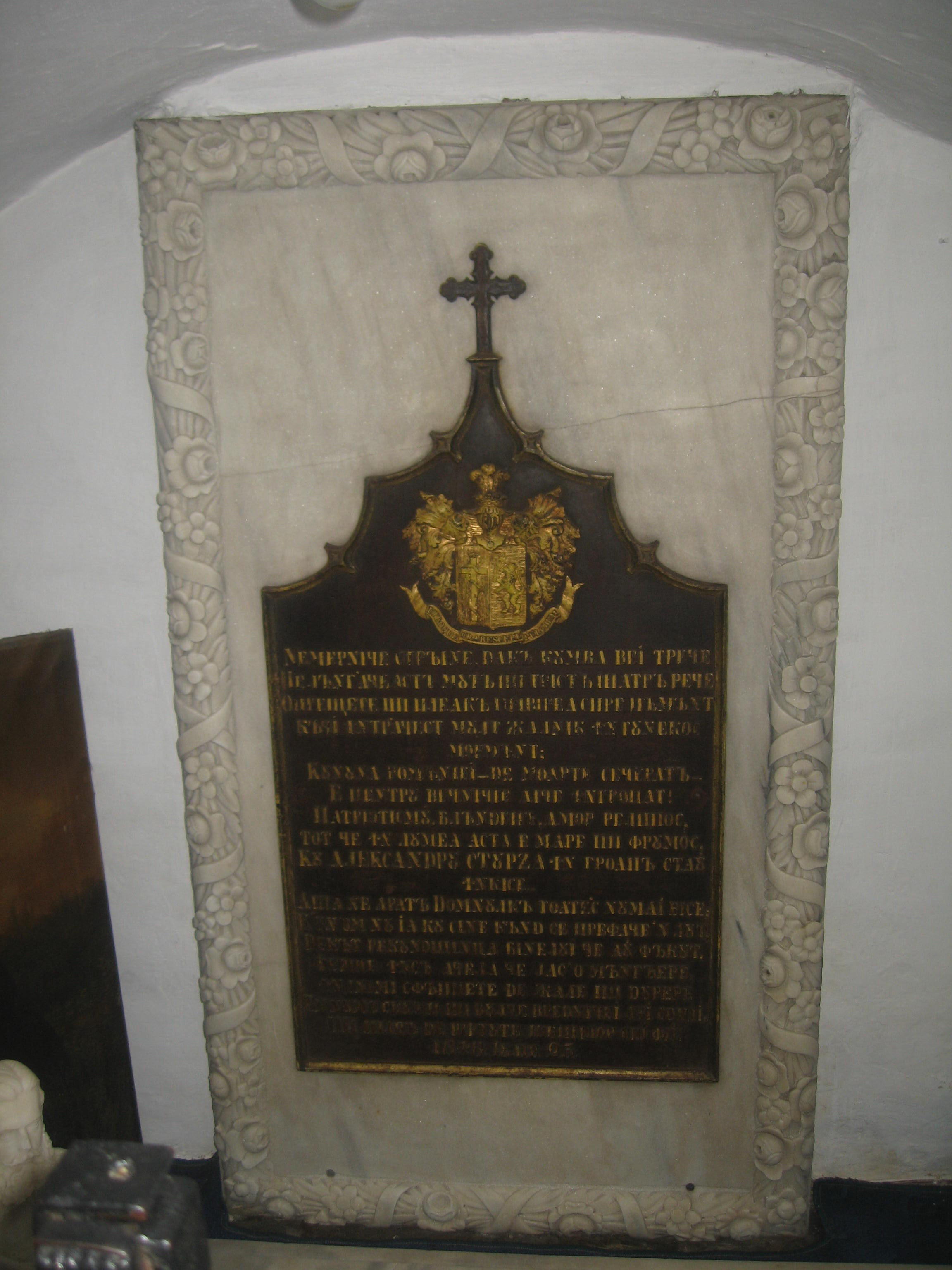 Miclăuşeni Monastery